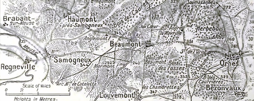 Map,east bank of the Meuse, Verdun, 1917